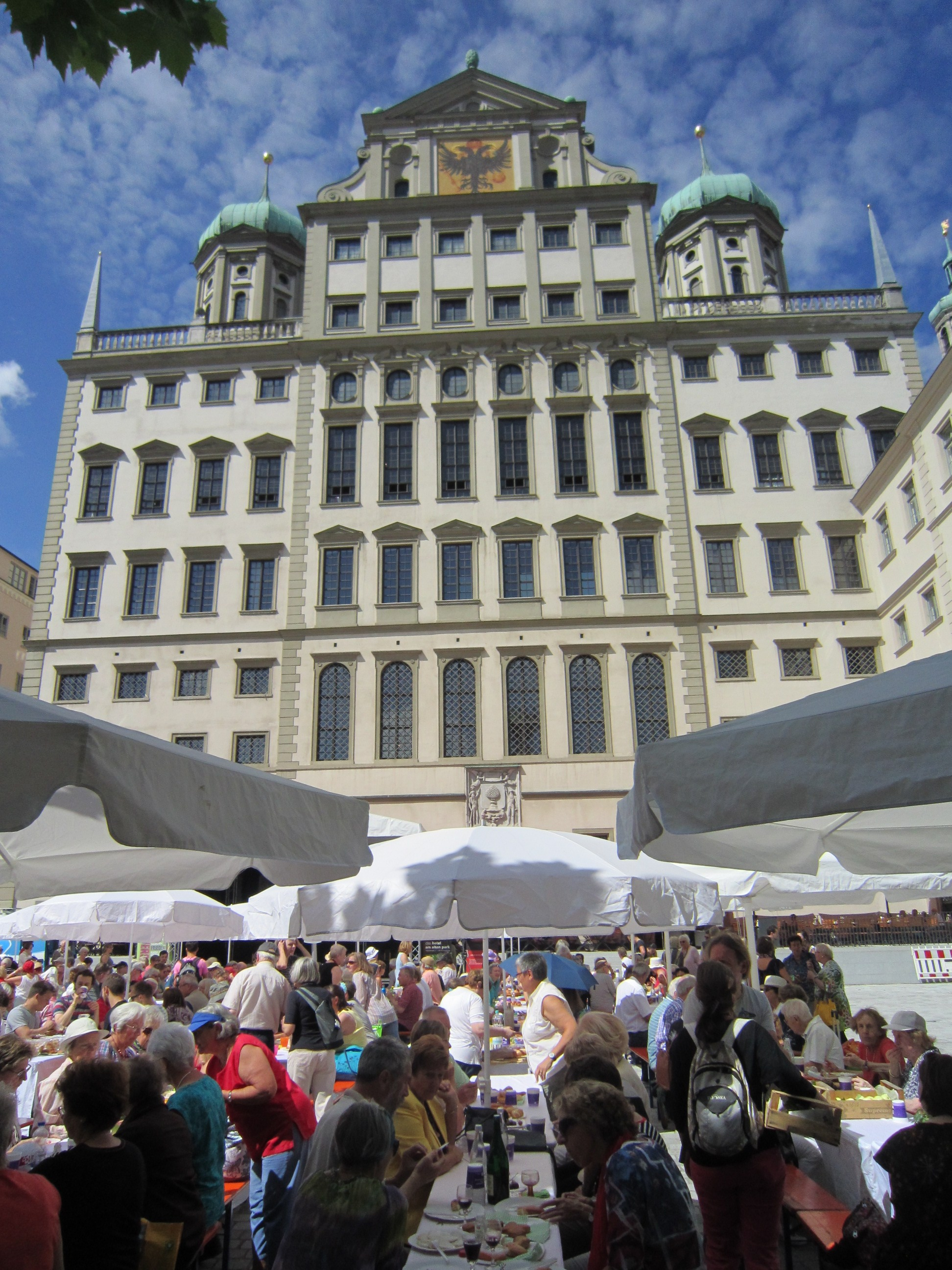 Peace meal behind the Augsburg townhall